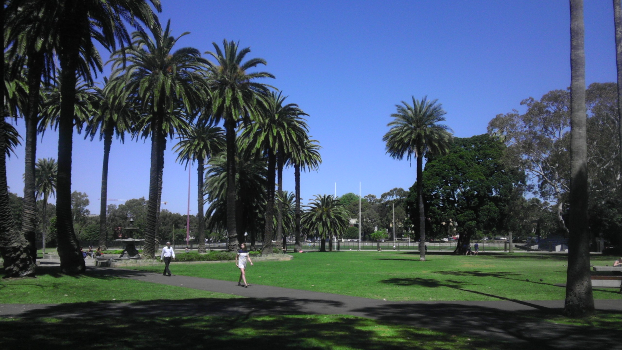 Redfern Park with Redfern Oval in the background (October 2014)